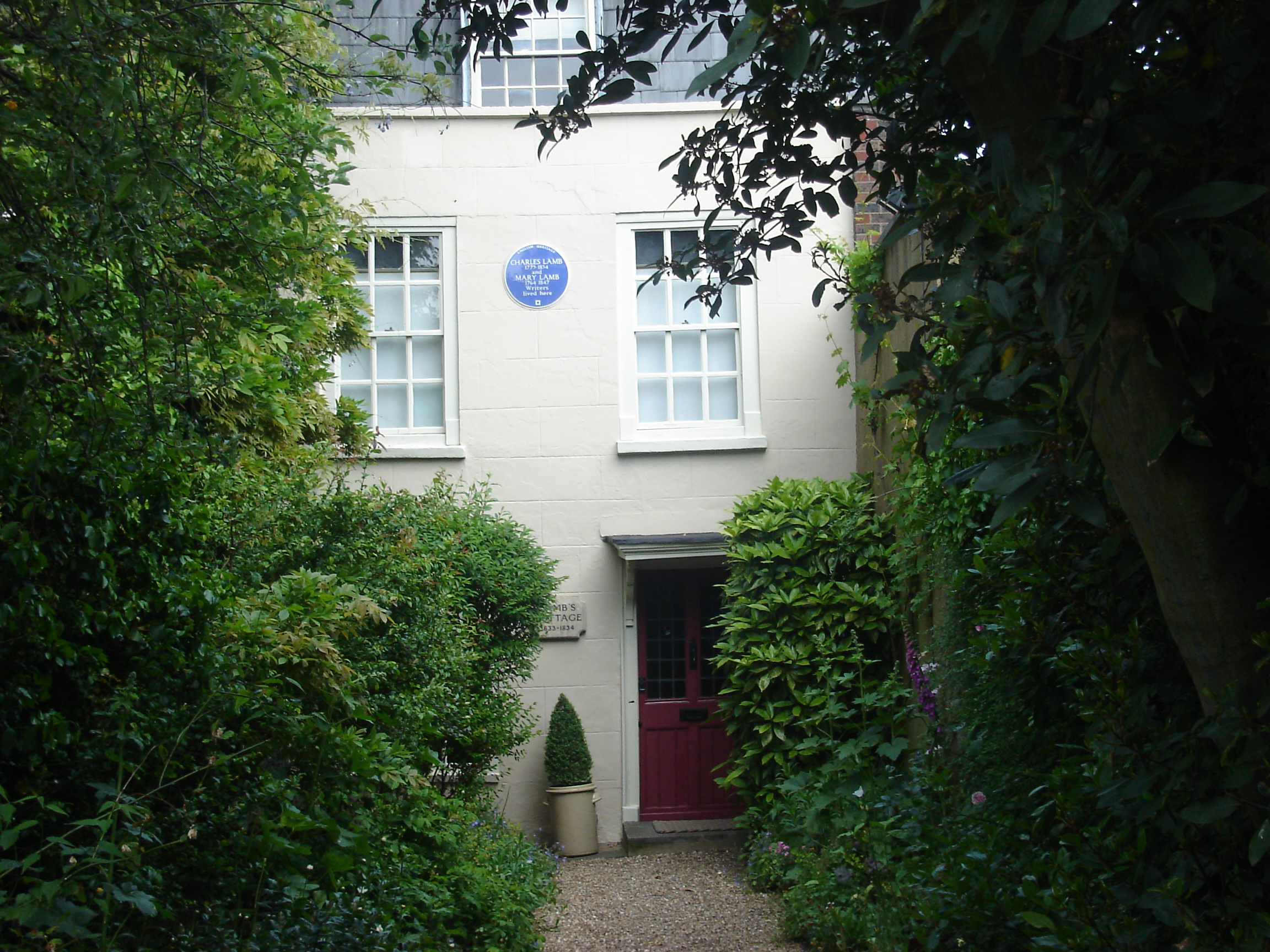 Picture of Charles Lambs cottage at Church Street Edmonton